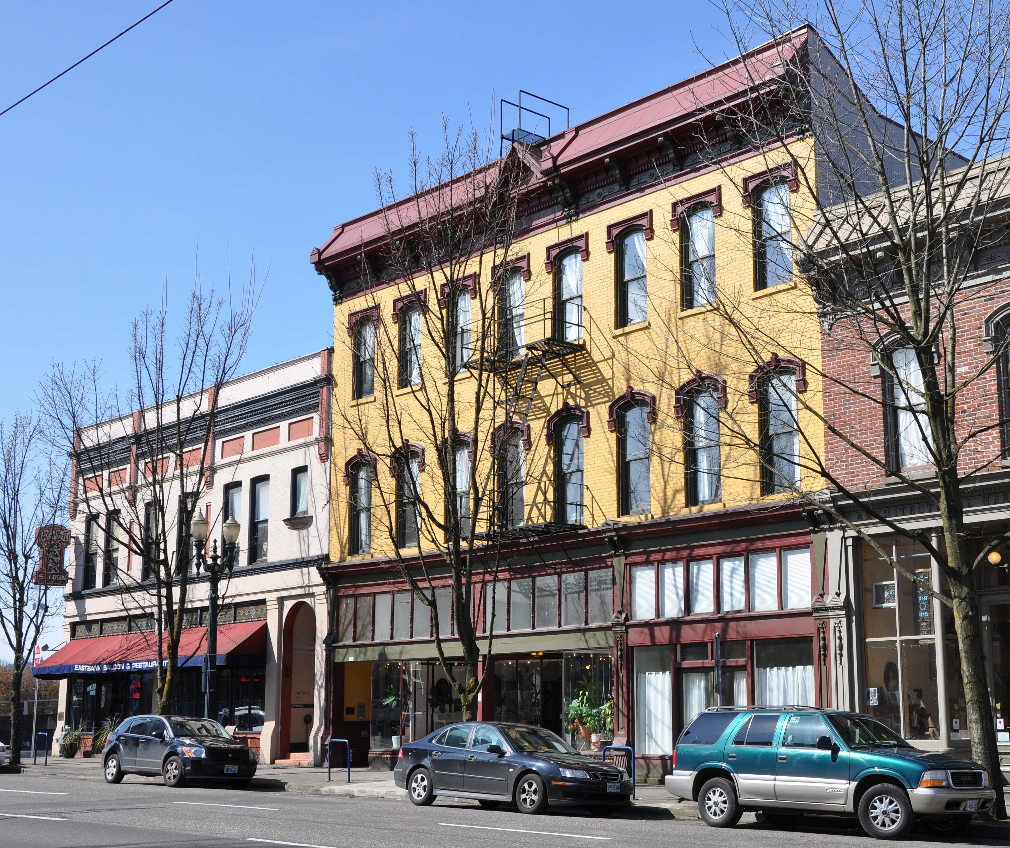 Nathaniel West Buildings, on the National Register of Historic Places. The buildings are at 711–27 S.E. Grand Avenue in Portland in the U.S. state of Oregon.